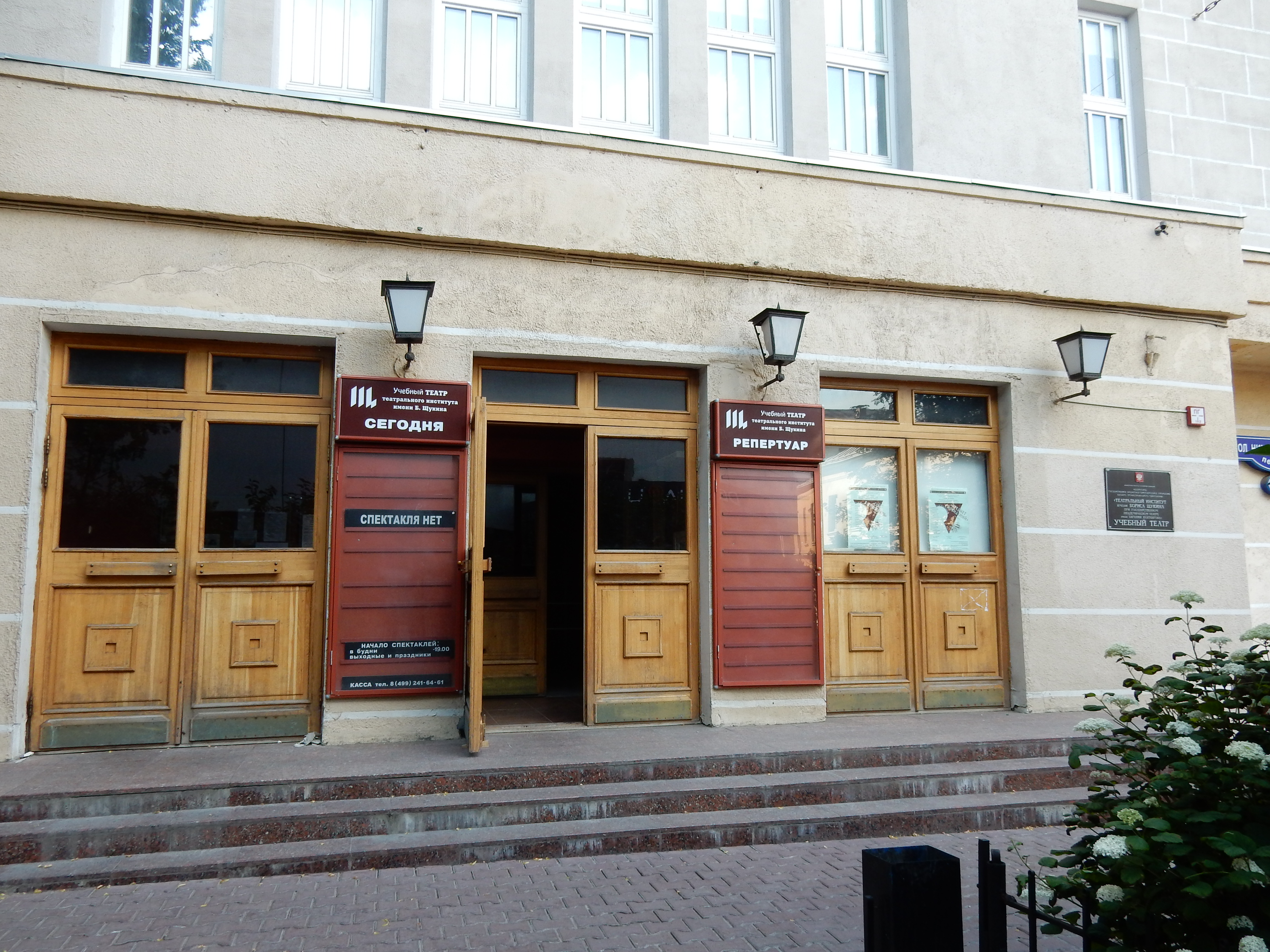 Moscow, Bolshoy Nikolopeskovsky Lane 12A. Boris Shchukin Theater Institute, student theater. July 2014.